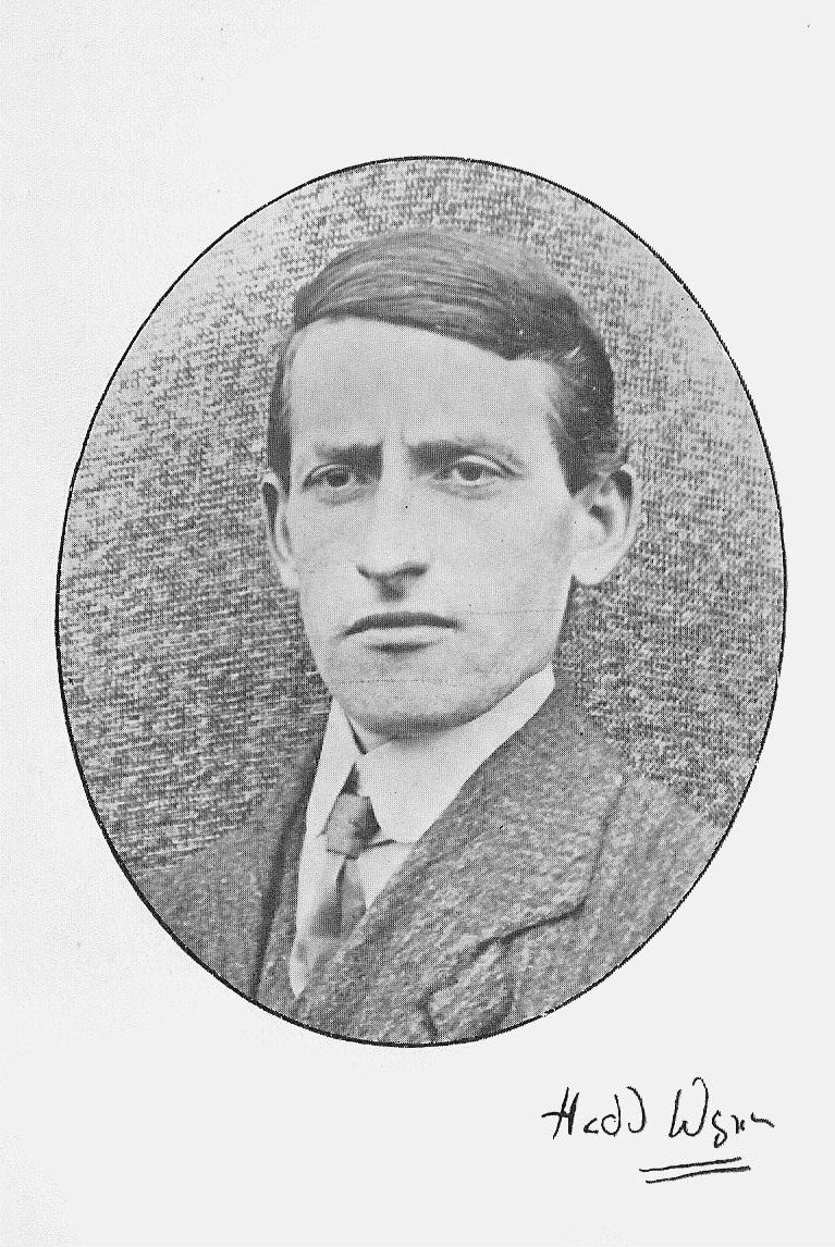 Ellis Humphrey Evans ("Hedd Wyn") (1887-1917). Renowned Welsh-language poet. Killed in World War I when only 20 years old, he became a powerful symbol in Wales of the pointless waste and human tragedy of that war. Frontispiece of Cerddi'r Bugail (1918).